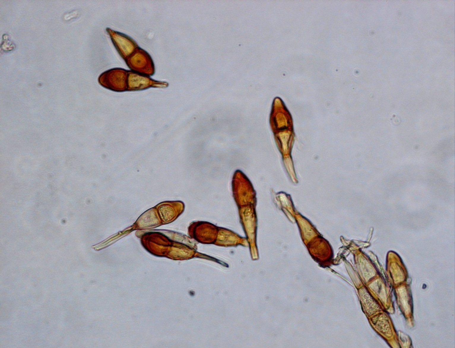 Teleospores of the Wheat Rust (Puccinia gramini)